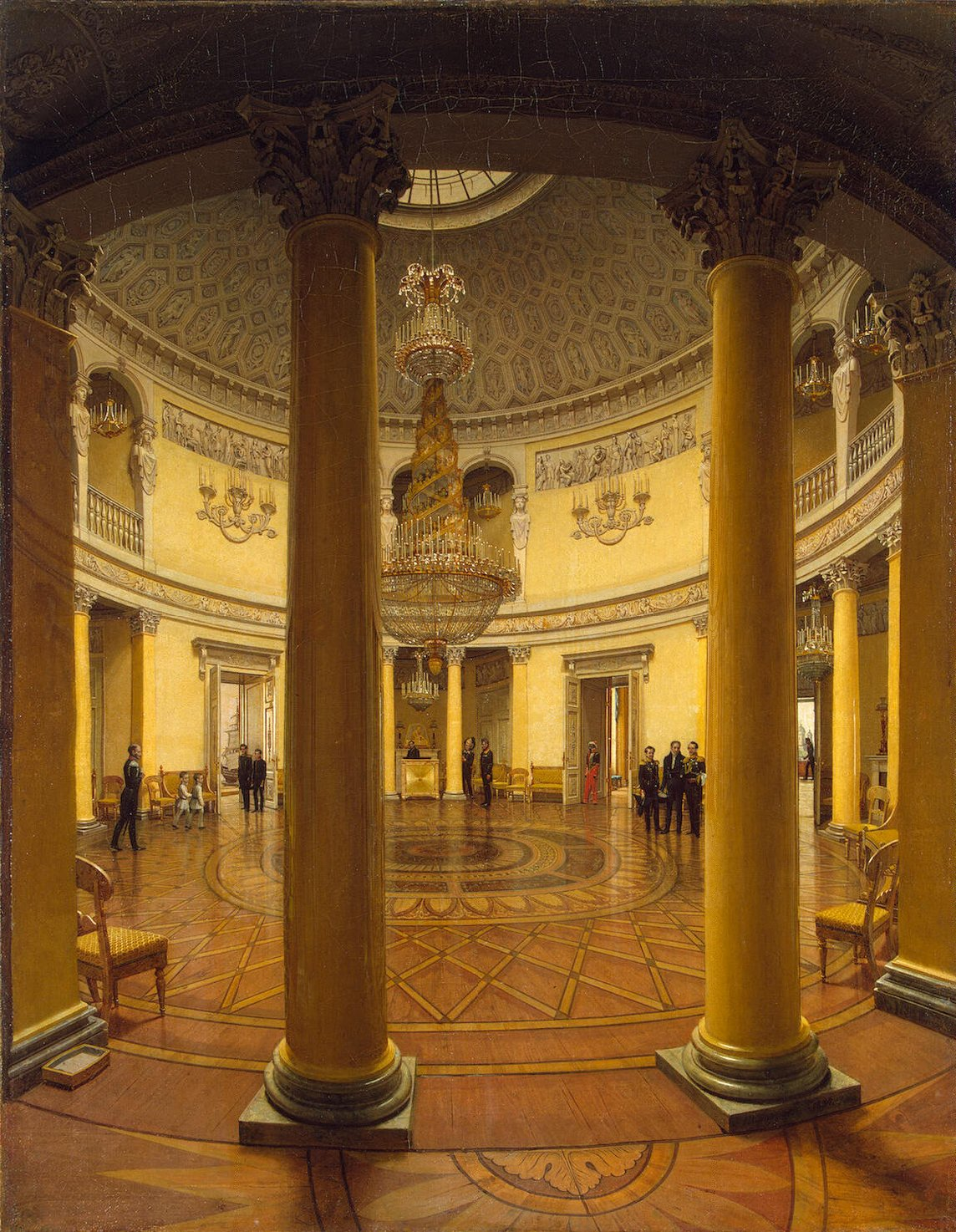 Interiors of the Winter Palace. The Rotunda. Oil on canvas, 104x82 cm. State Hermitage.